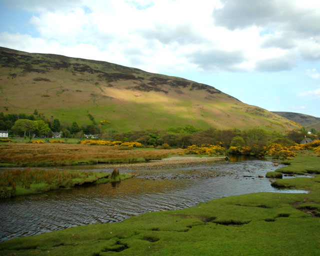 Lochranza in Aran Island, Scotland